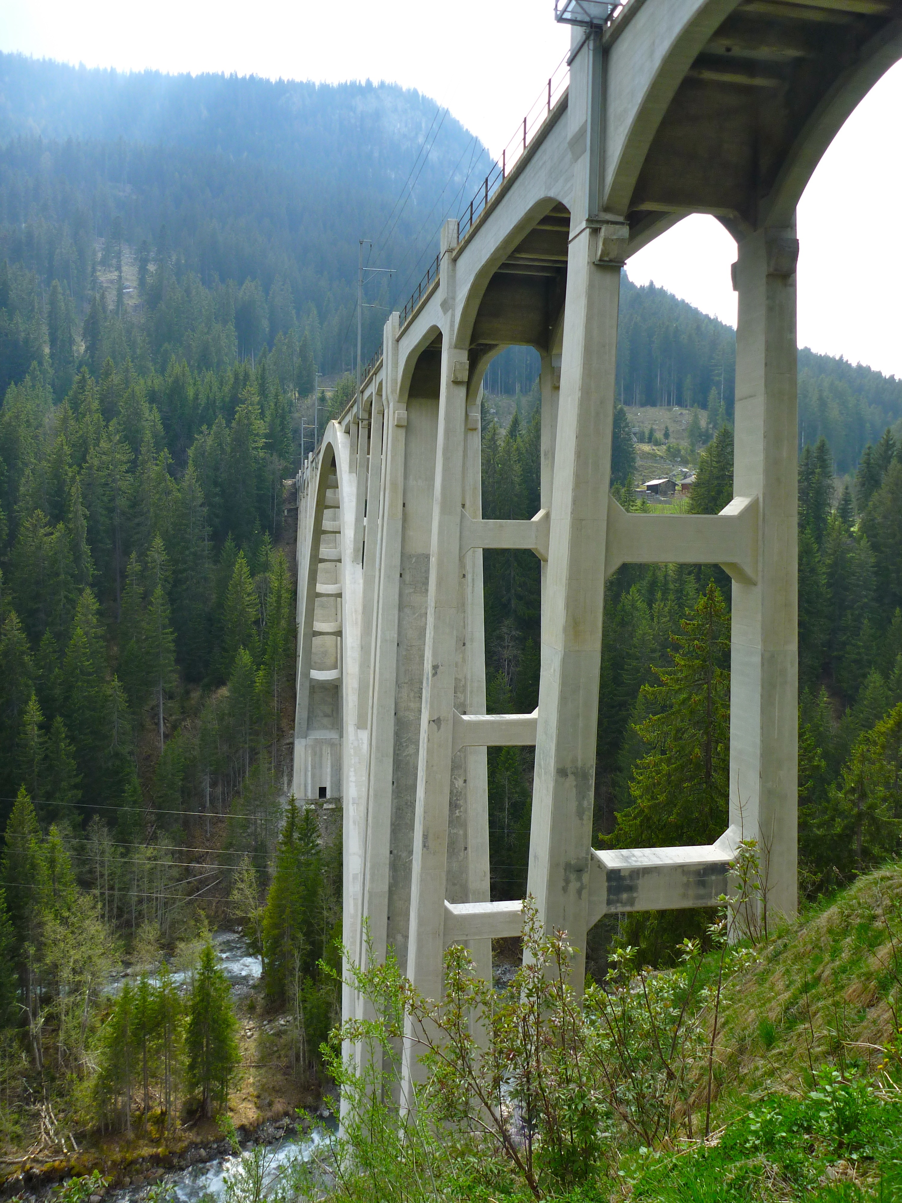 Langwieser Viaduct from 1914, Chur-Arosa railway